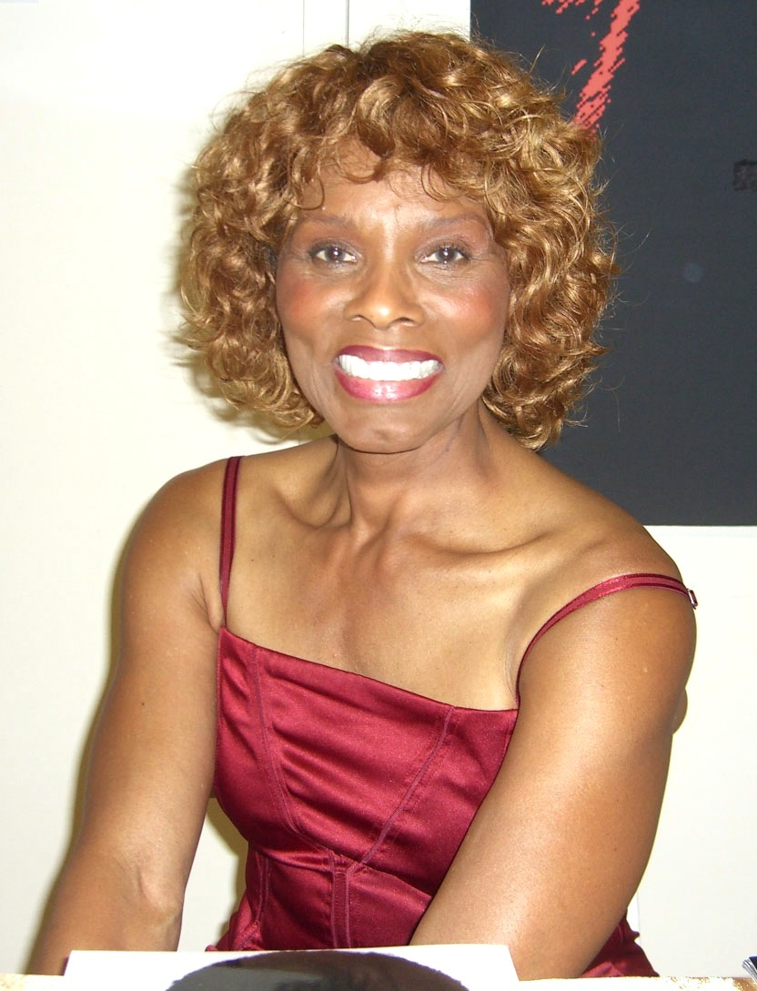 Actress Gloria Hendry at the November 2008 Big Apple Convention in Manhattan.